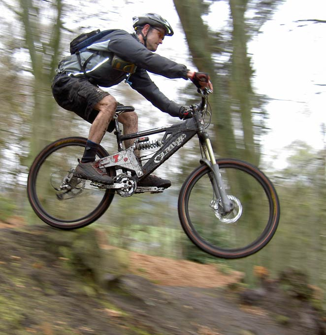 Mountain biker jumping. Rider: Lee Collis, Location: Rothbury, Northumberland, UK